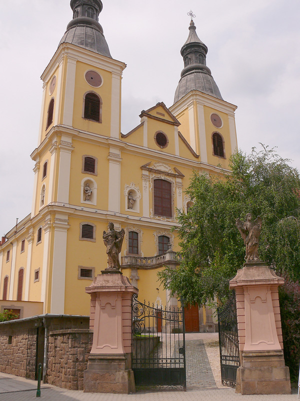 The Cistercian Church in Eger, Hungary